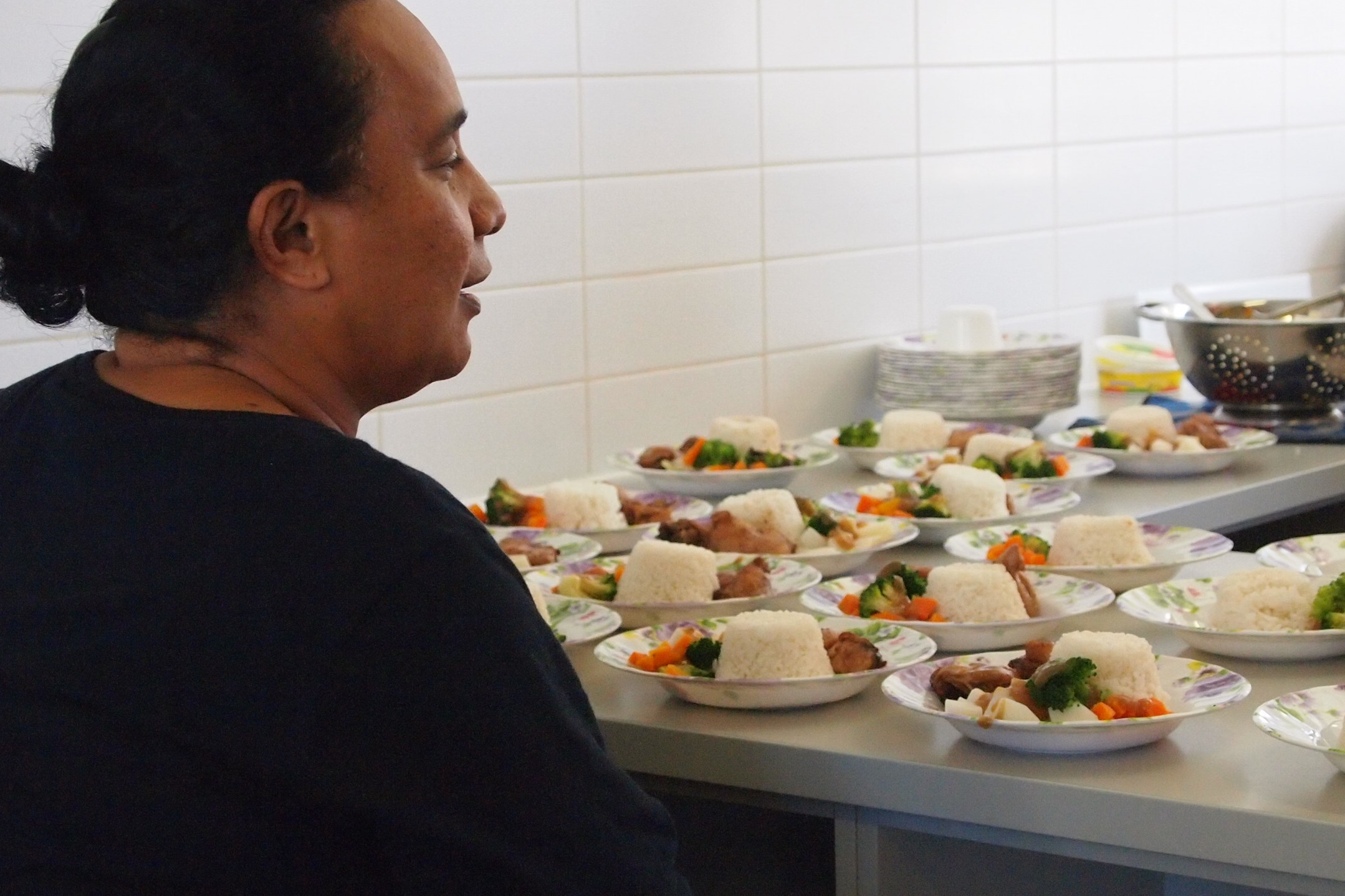 Nauru Secondary School Principal, Clarissa Jeremiah, inspecting school lunches, 13 November 2012.